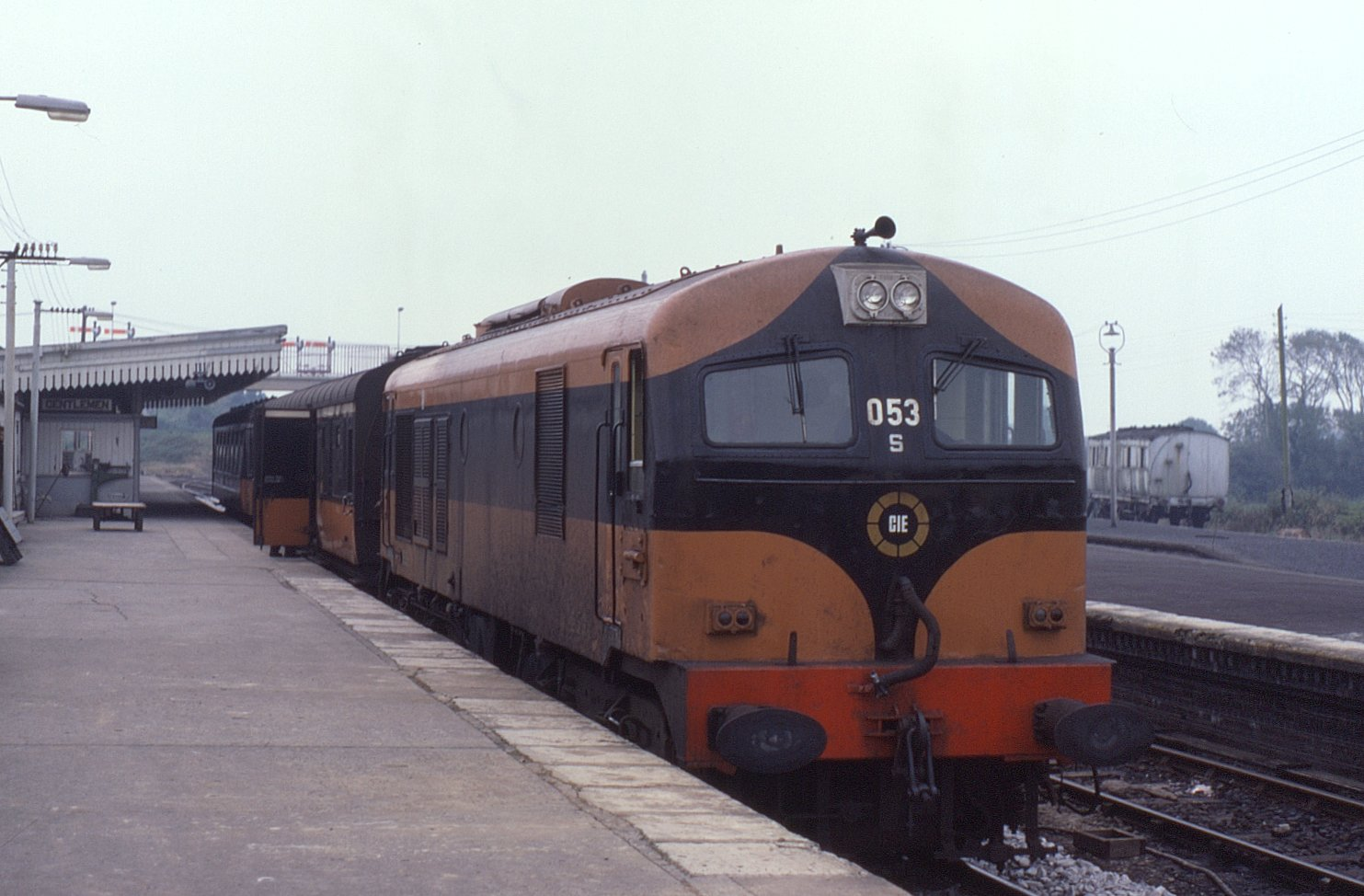 053 at Claremorris on 23 October 1985 on 16:20 Claremorris to Ballina. Small engines with a couple of passenger coaches plus steam heating van were the norm on this line for many years to due axle weight restrictions. The Ballina branch traditionally worked as a connection off through trains from Dublin to Westport. In the 1990s the operational arrangements changed and a purpose built transfer platform was built at Manulla Junction.